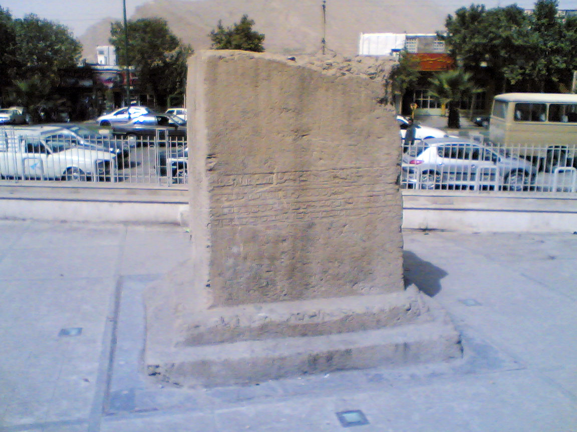 inscription , khorramabad